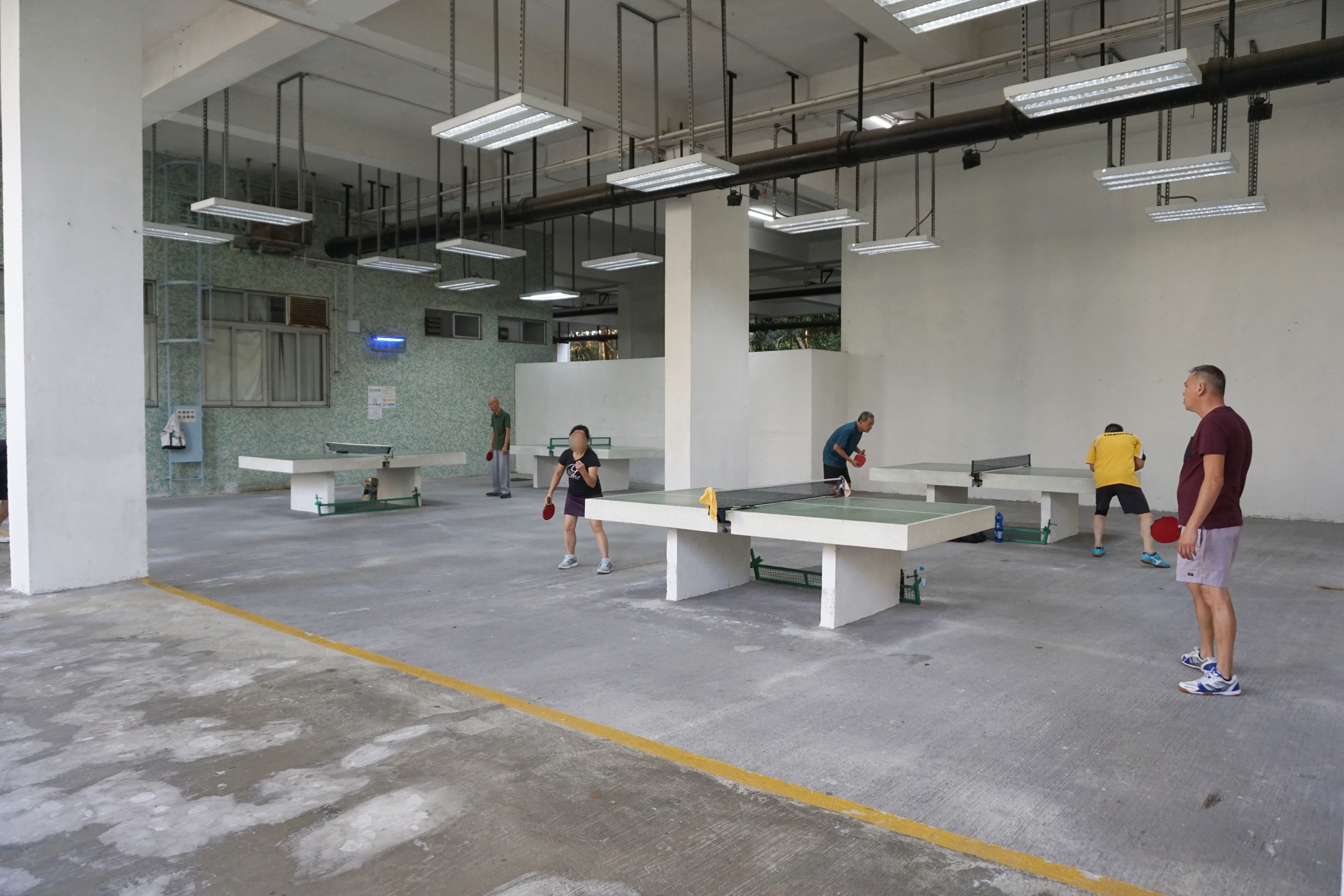 Saddle Ridge Garden in Ma On Shan, Hong Kong.